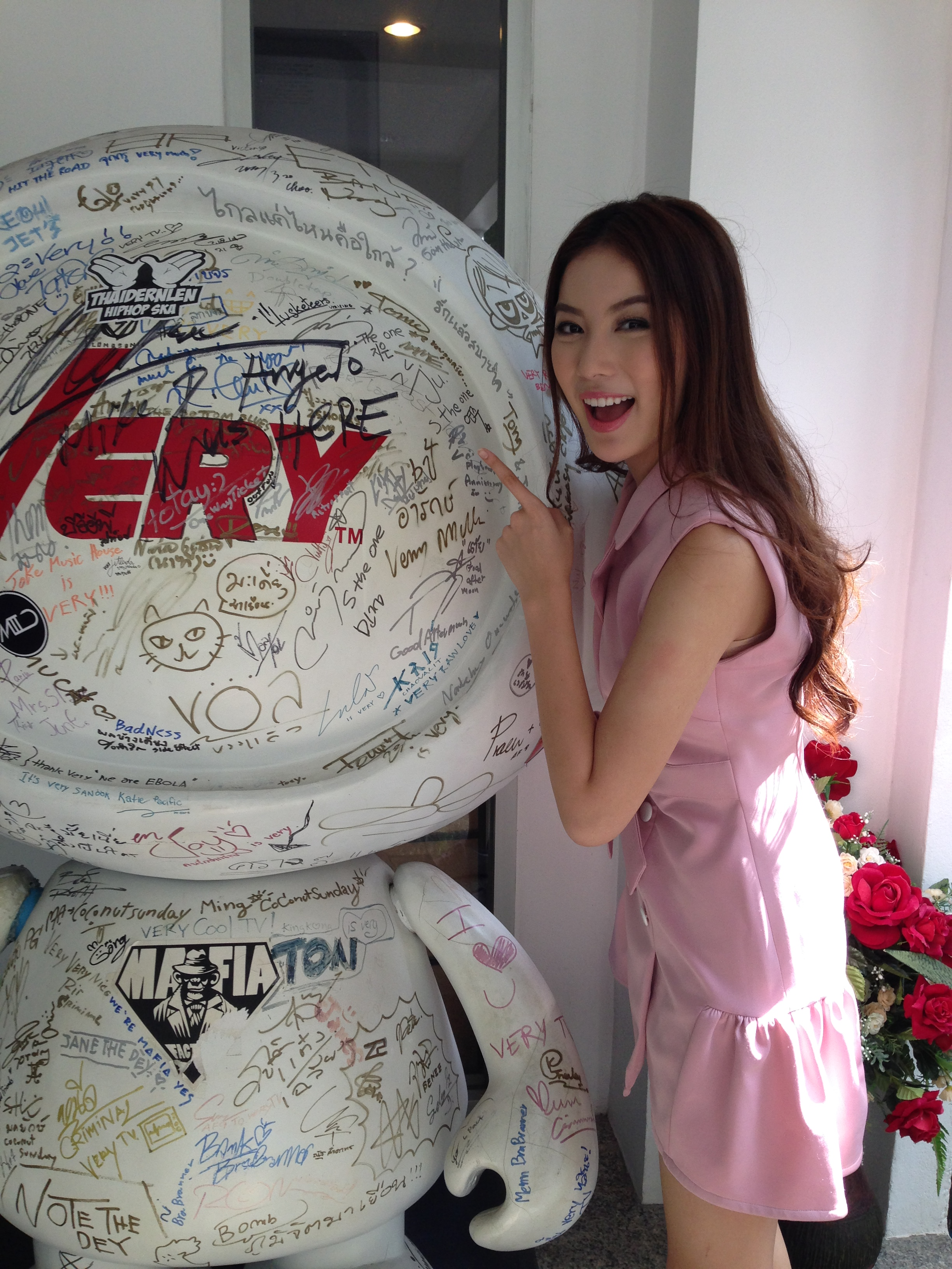 Mook Worranit at VERY TV.